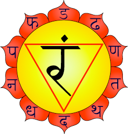 Manipura chakra with bija syllables in order